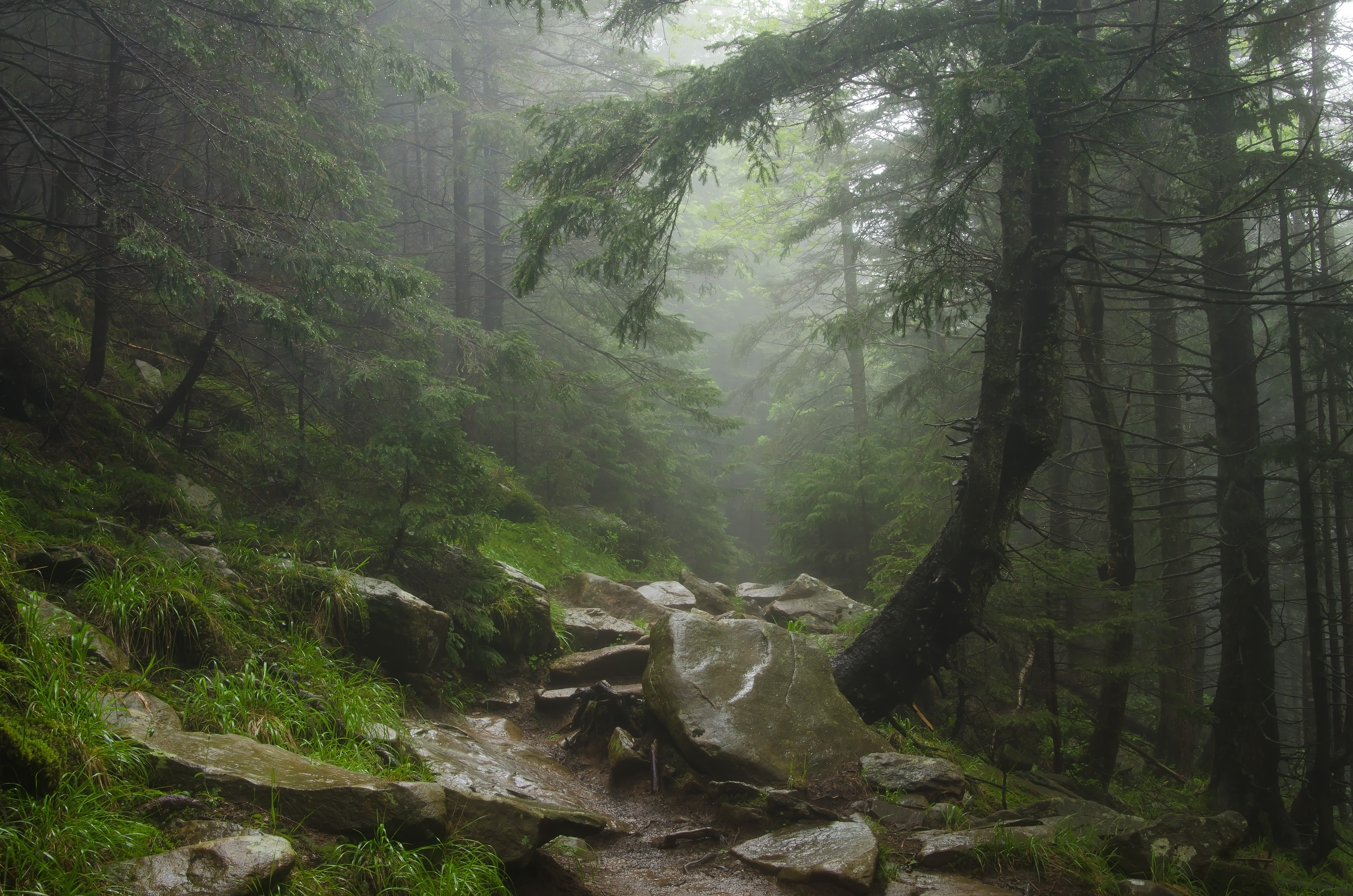 Carpatian National Nature Park, Ukraine